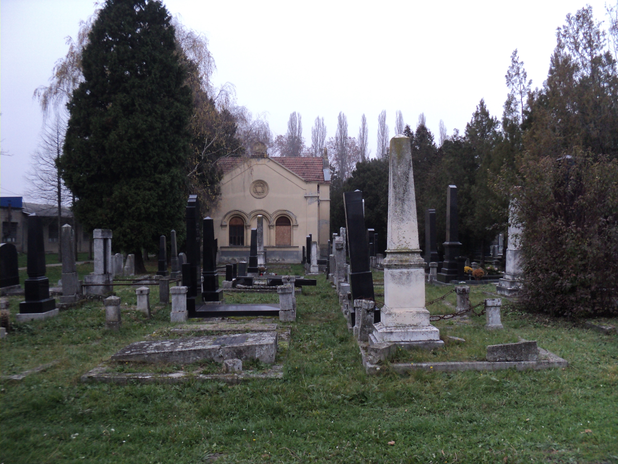 Jewish cemetery in Gornji grad municipality, Osijek.